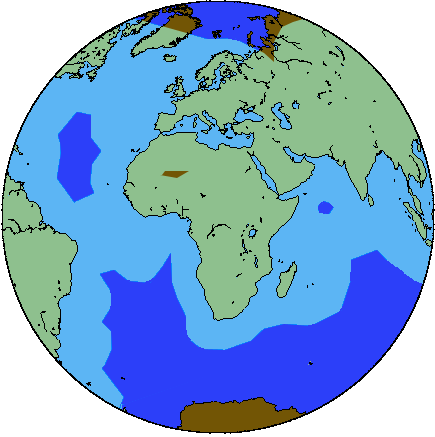 Dark blue or dark brown colours show area forbidden to ETOPS-120 aircrafts.